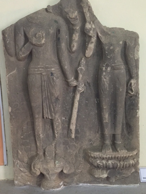 Statue of Vishnu and Lakshmi, sandstone, pyu period, found from monastery near the Hmwa Zar station.